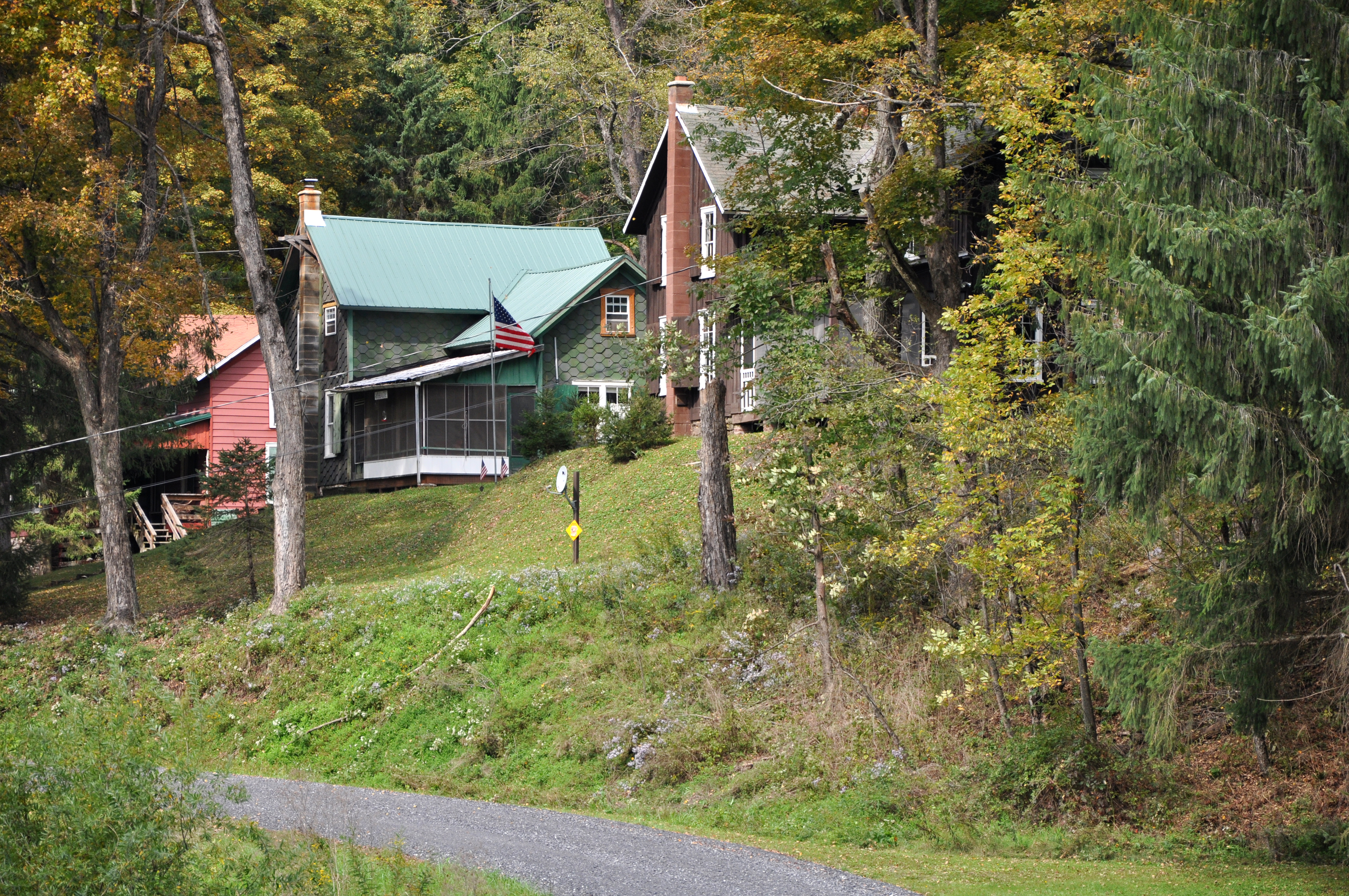 Houses along Leetonia Road in Leetonia in the U.S. state of Pennsylvania